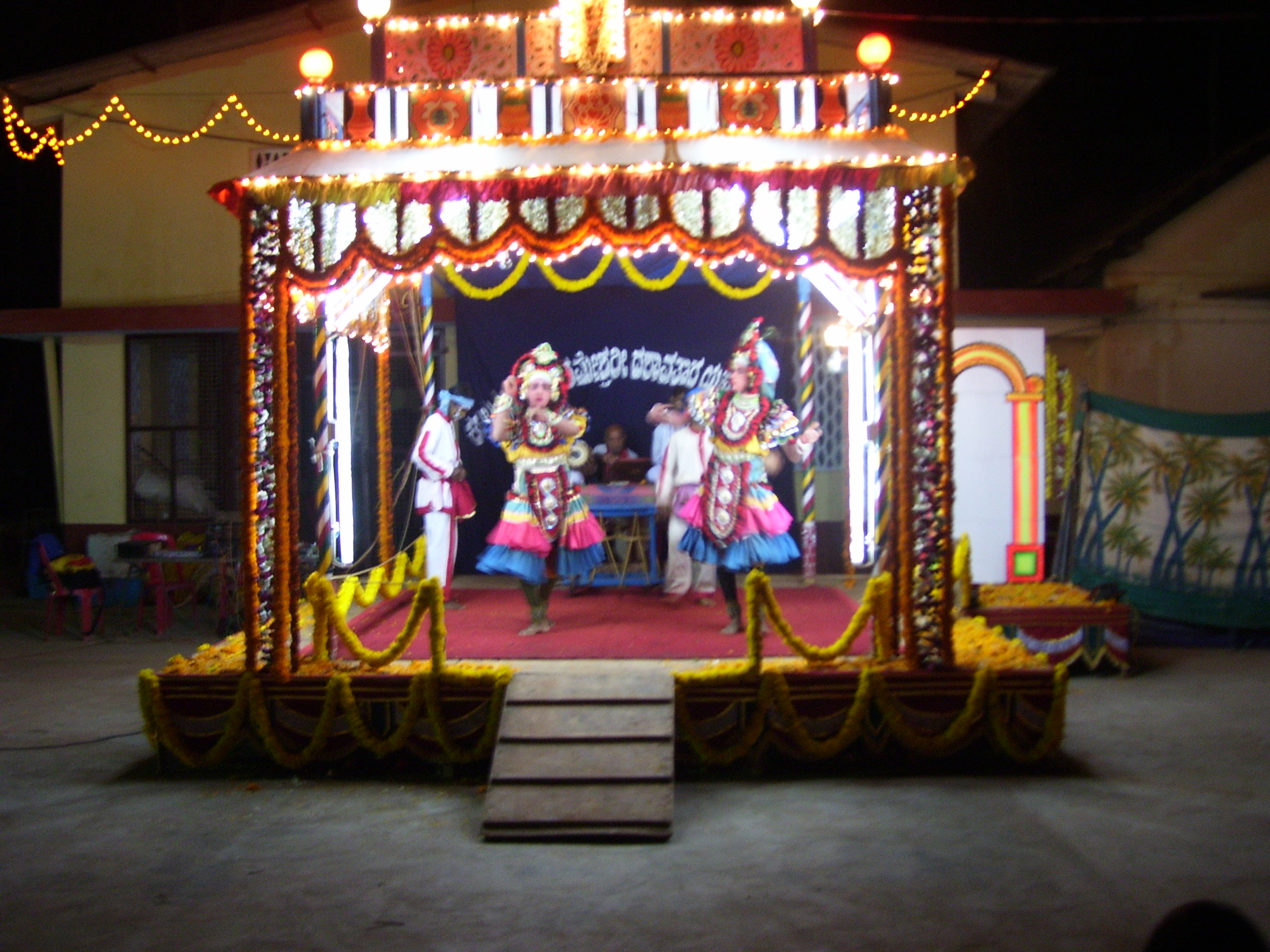 Yakshana stage where folk art yakshagana is performed. It is known as ranga mantapa in Kannada language